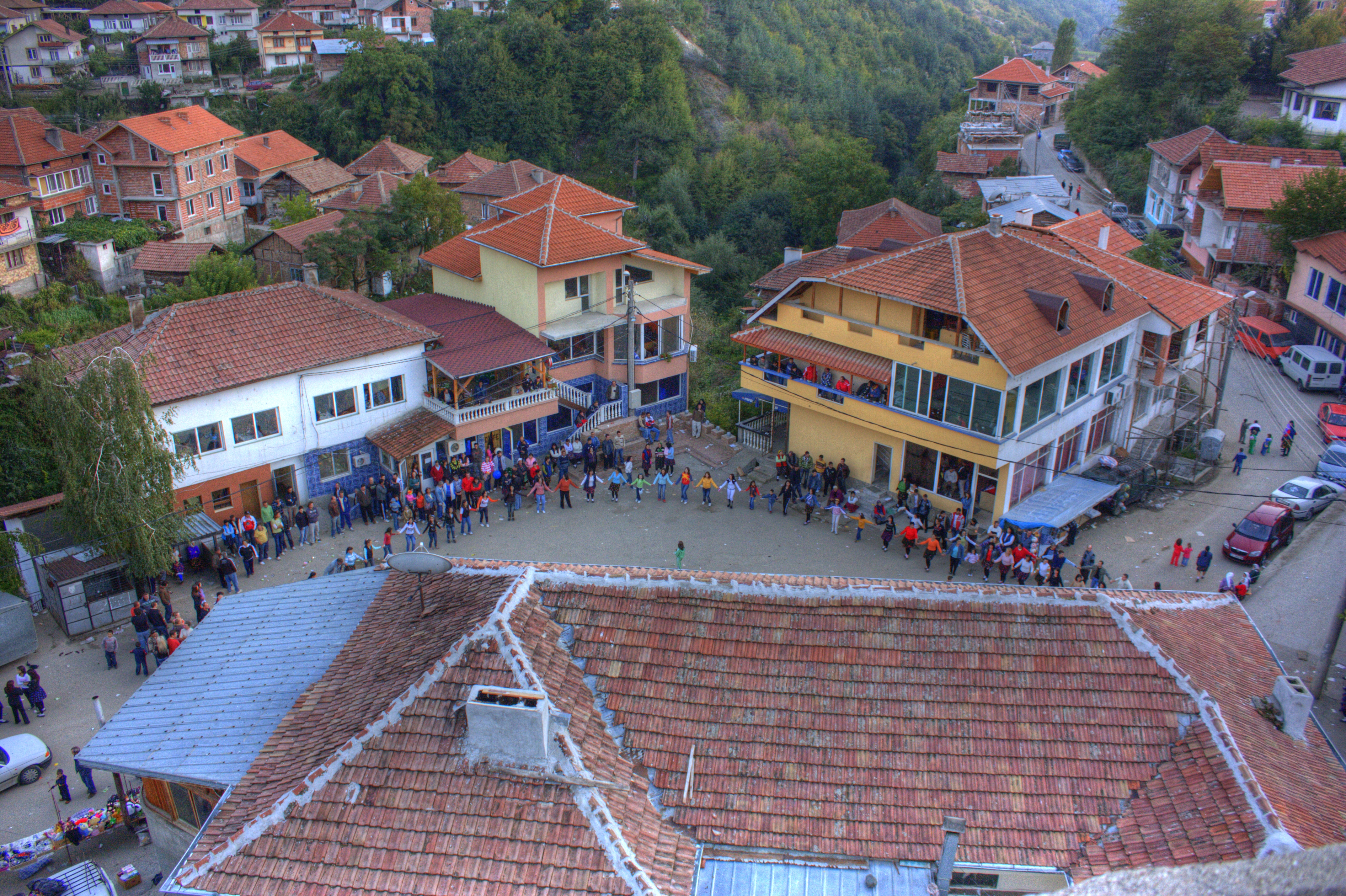 Pomaks dancing during the Ramazan Bayram at village Dolno Osenovo, Bulgaria... View from the top of the minaret of the local mosque